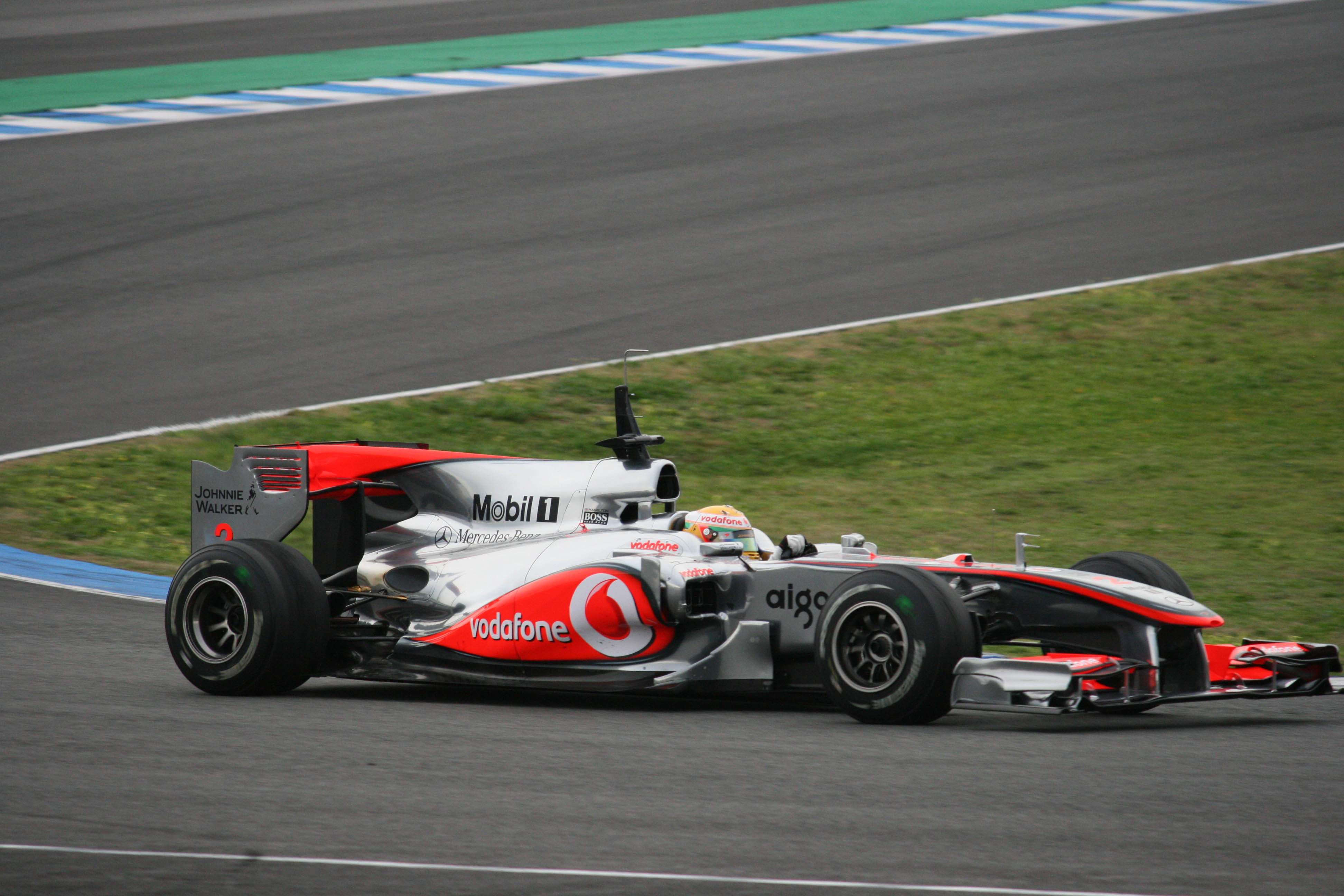 Lewis Hamilton testing for McLaren at Jerez, 12/02/2010.